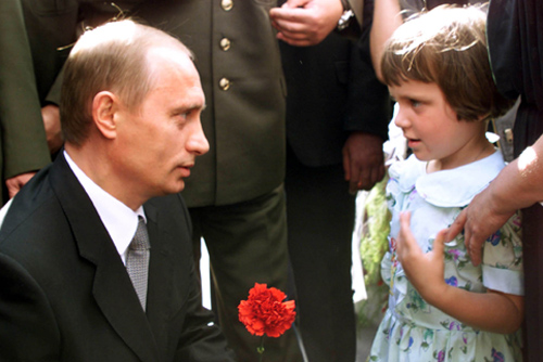 PSKOV. Vladimir Putin meeting with relatives of the paratroopers killed during the anti-terrorist operation in Chechnya. Anna Tomyakhina is the daughter of one of the killed paratroopers from the 6th company, 76th Pskov-based guards airborne division.